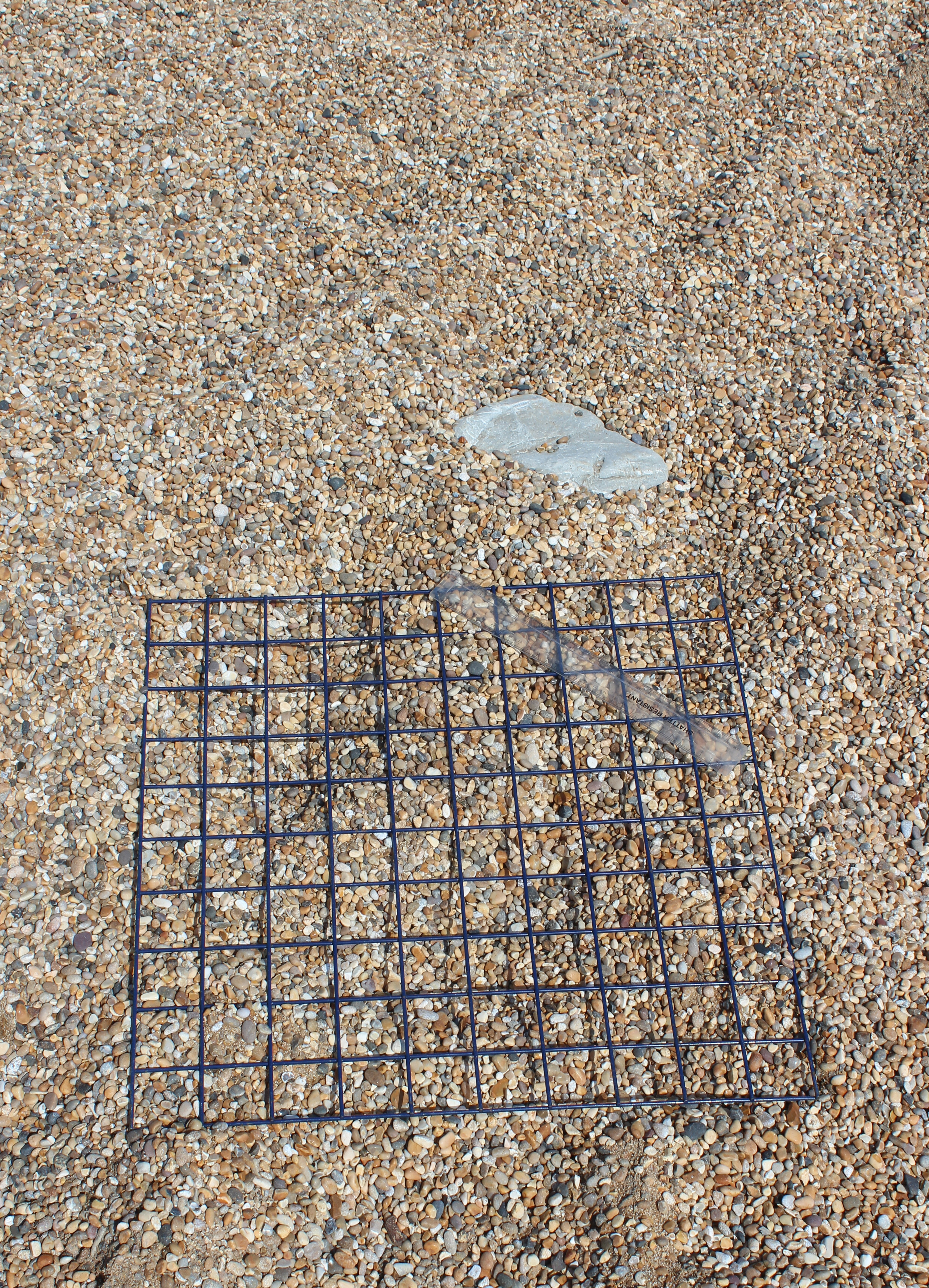 A 50-cm quadrat and a 30 cm ruler on a pebble beach at Burton Bradstock, part of the Chesil Beach, about 3 km from the western end (West Bay) and 24 km from its eastern end (Portland). The quadrat was used for sizing the pebbles along the Beach. At the eastern end of the Chesil Bank, the pebbles average 3.5 cm in size.[1] Here, as shown by the quadrat, the pebbles are 2 to 3 mm in size. This image was taken during a school fieldwork project.